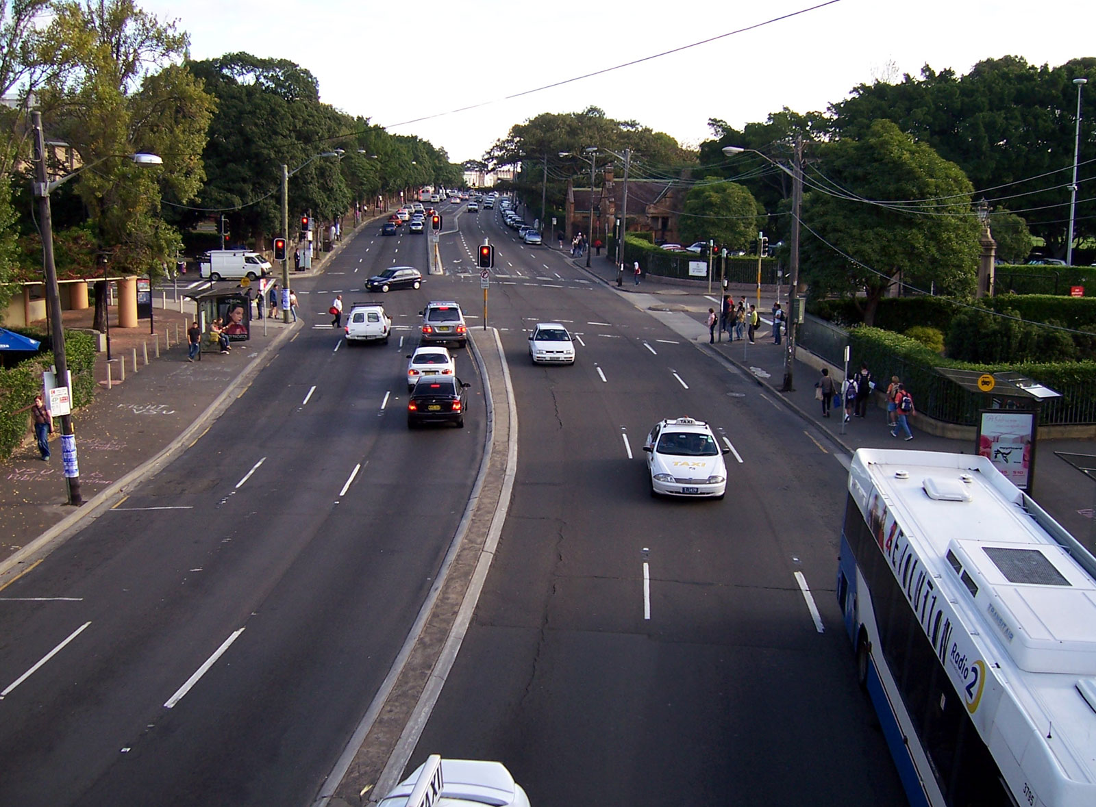 City Road, Sydney, as viewed from the bridge joining the Darlington and Camperdown campuses of the University of Sydney Taken by Enoch Lau on 6 May 2005. As a courtesy, please let me know if you alter this image or this image description page. Original filename was 101_0190.JPG.